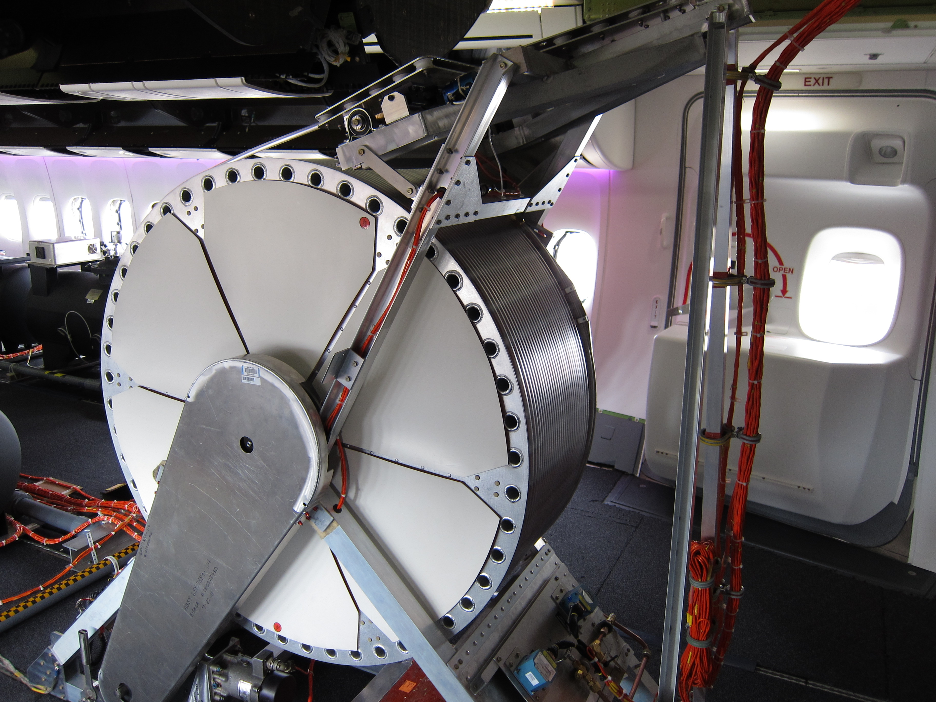 Calibration static pressure probe rig at the aft of the Boeing 747-8I prototype cabin (nose of aircraft is towards the left of photo). The barrel is used to roll up a long, flexible hollow tube that permits static pressure measurement behind the aircraft. During test flights the barrel is rotated and the probe is trailed downstream from the top of the tail of the aircraft, until static pressure can be measured far from the aerodynamic influence of the aircraft. This type of probe can be seen partly extended from the tip of the vertical tail of many airliner prototype aircraft.